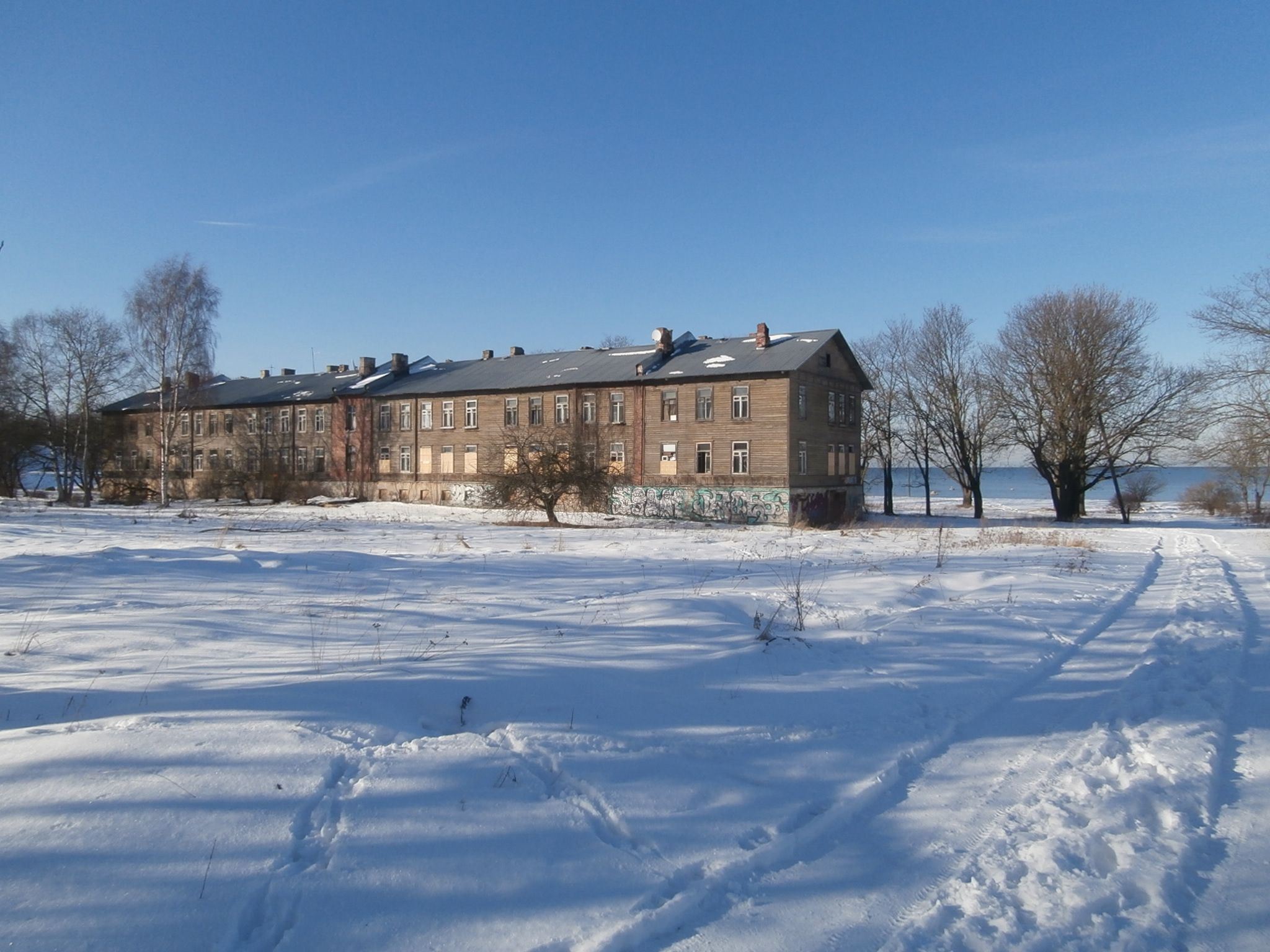 Wooden House Liinivahe 17 Tallinn 1 March 2016